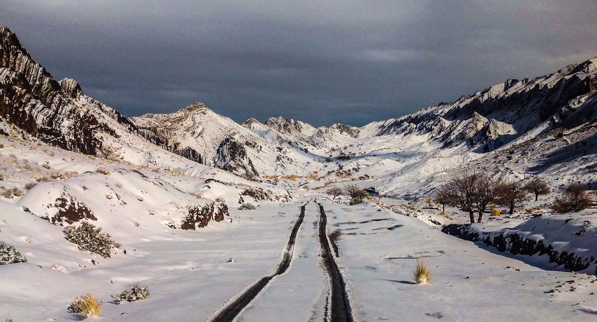 Kakar khurasan district killasaifullah balochistan province Pakistan